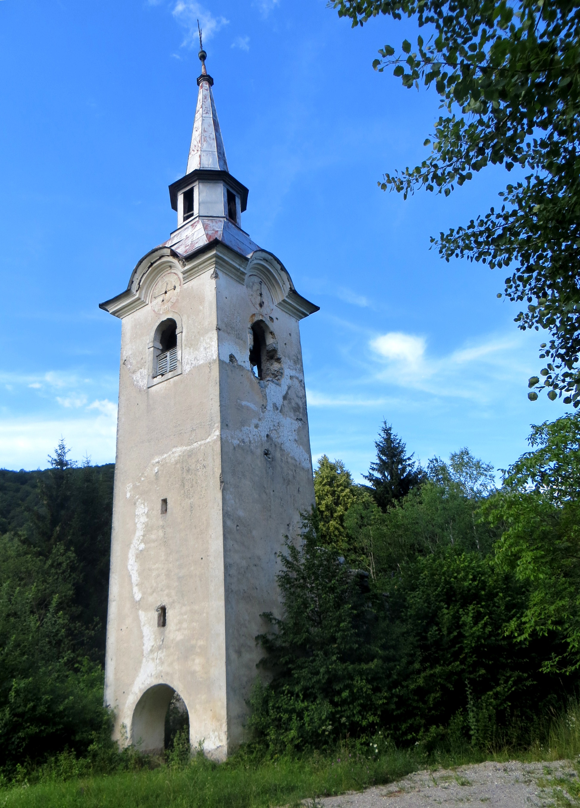 Saint Florian's Church in Brezovica pri Črmošnjicah, Municipality of Semič, Slovenia